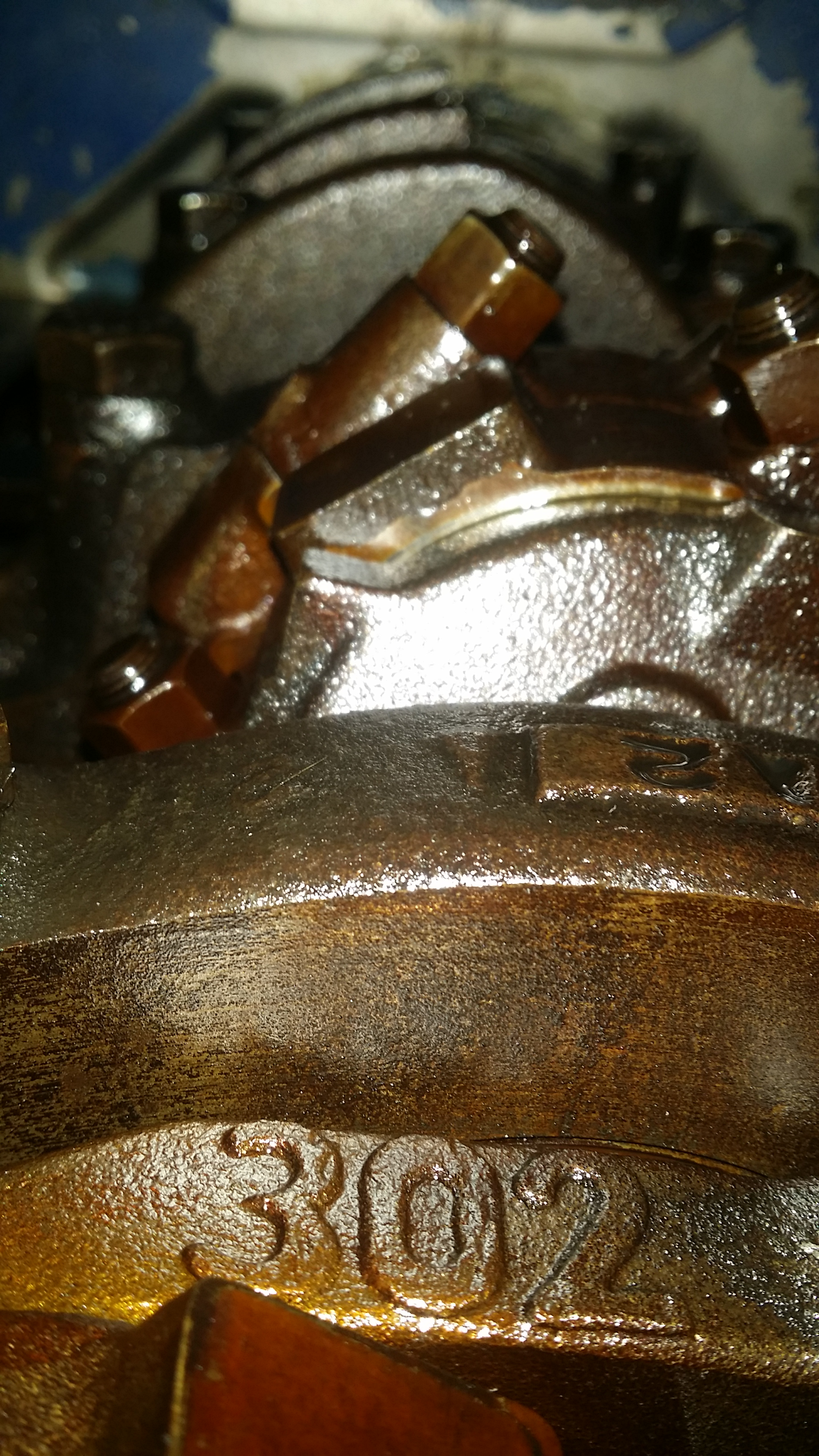 Front end of an Australian 302 Cleveland engine's crankshaft clearly showing it's intended displacement rating.